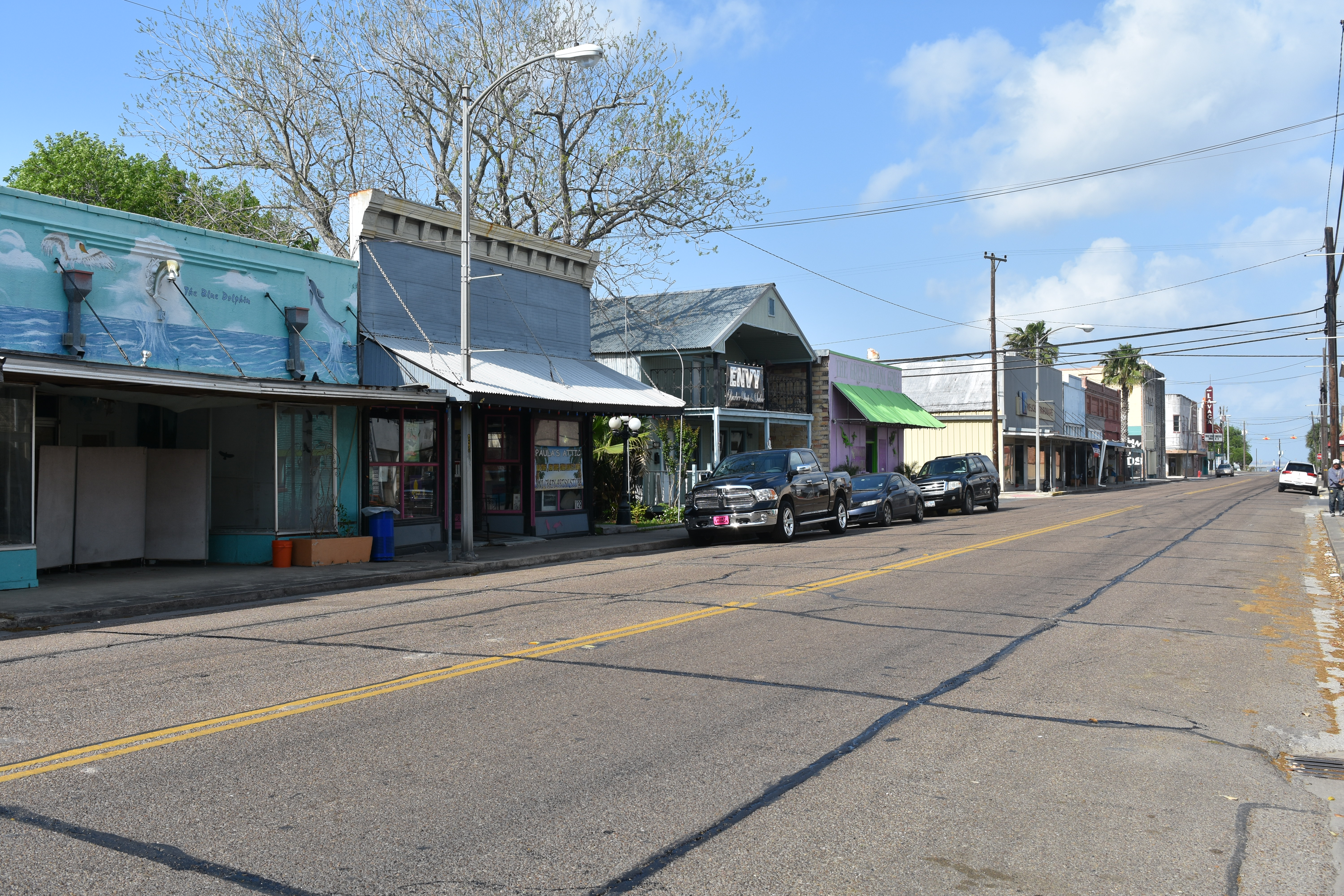 Main Street, Port Lavaca, Texas, USA